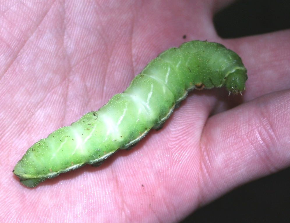 Aglia tau - Caterpillar